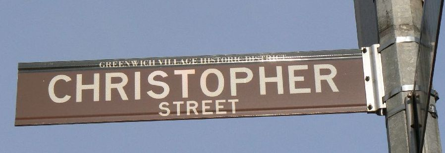 Sign Christopher Street